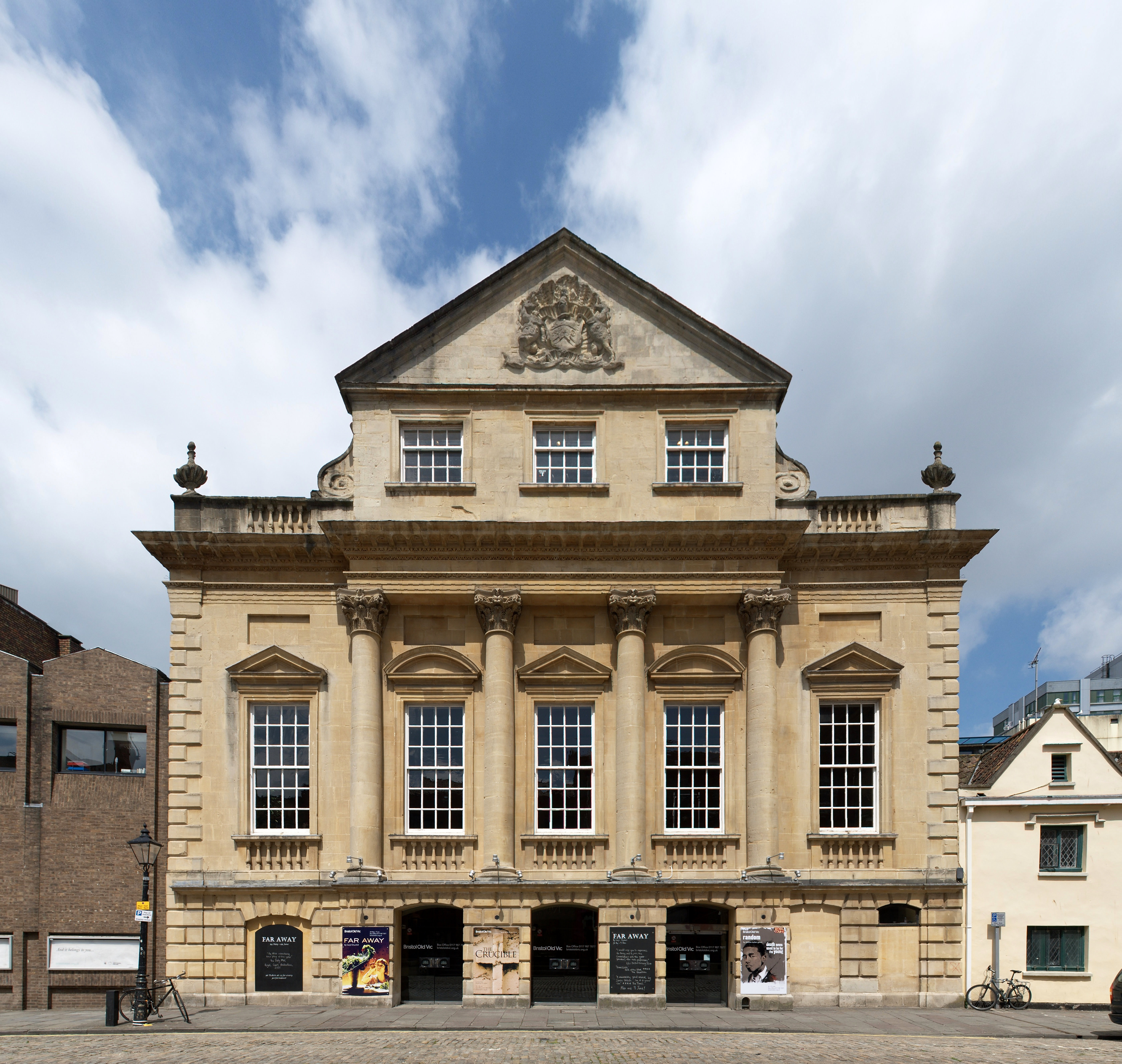 The front of the Coopers' Hall, designed by William Halfpenny and erected in 1743-44. At the time the photo was taken the Coopers' Hall served as the main entrance to the Bristol Old Vic.